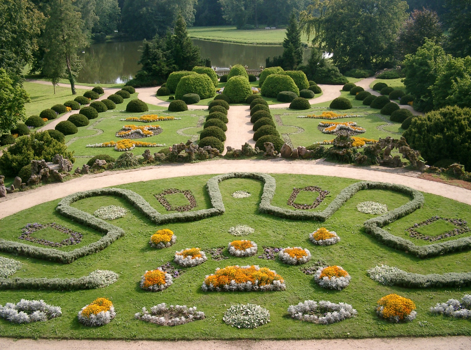 Garden of palace Wiesenburg